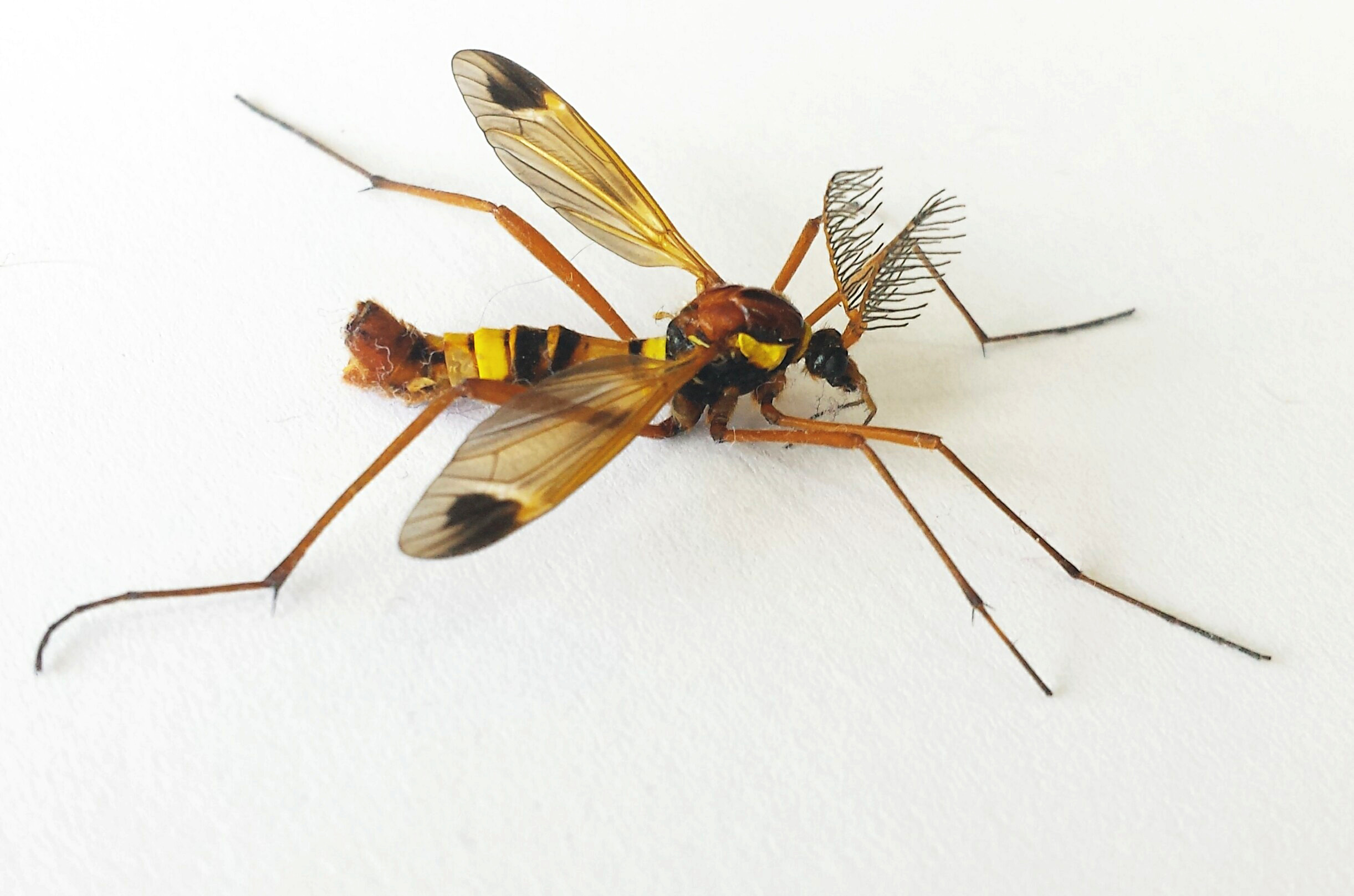 Ctenophora Ornata, captured 27th May 2017 in Courbevoie, France